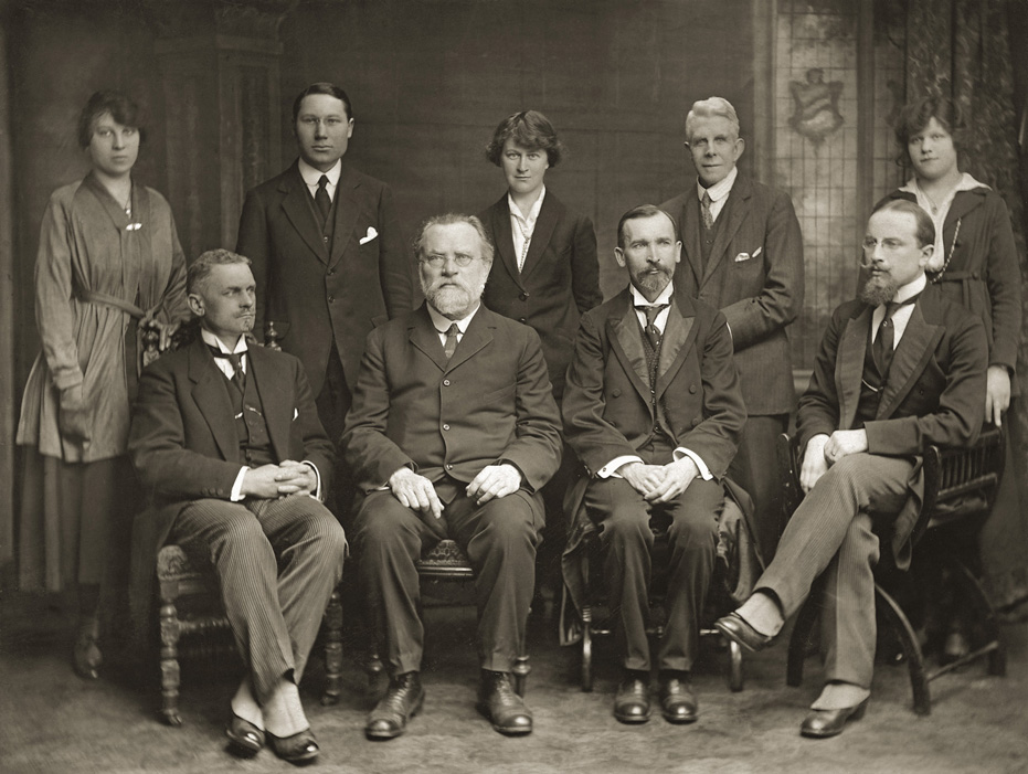 First Representation of Lithuania in London, 1919. From right siting - Kazys Bizauskas, Jonas Šliūpas, Vincas Čepinskis